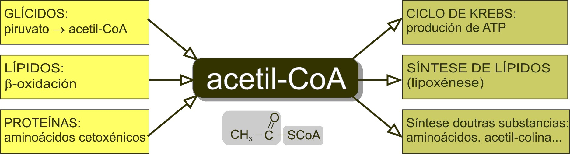 metabolismo do acetil-CoA jpg